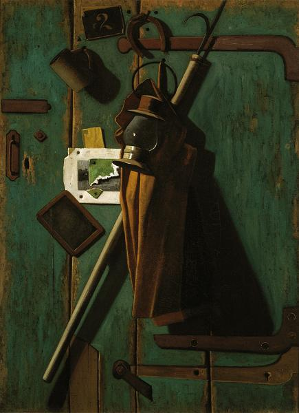 Painting: Fish House Door, by John Peto. Current location: Dallas Museum of Art